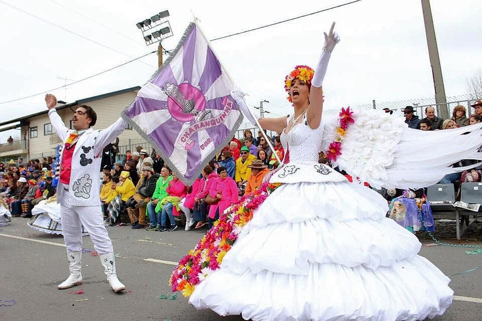 Carnaval de Ovar (Portugal)'s Charanguinha Flag Bearer